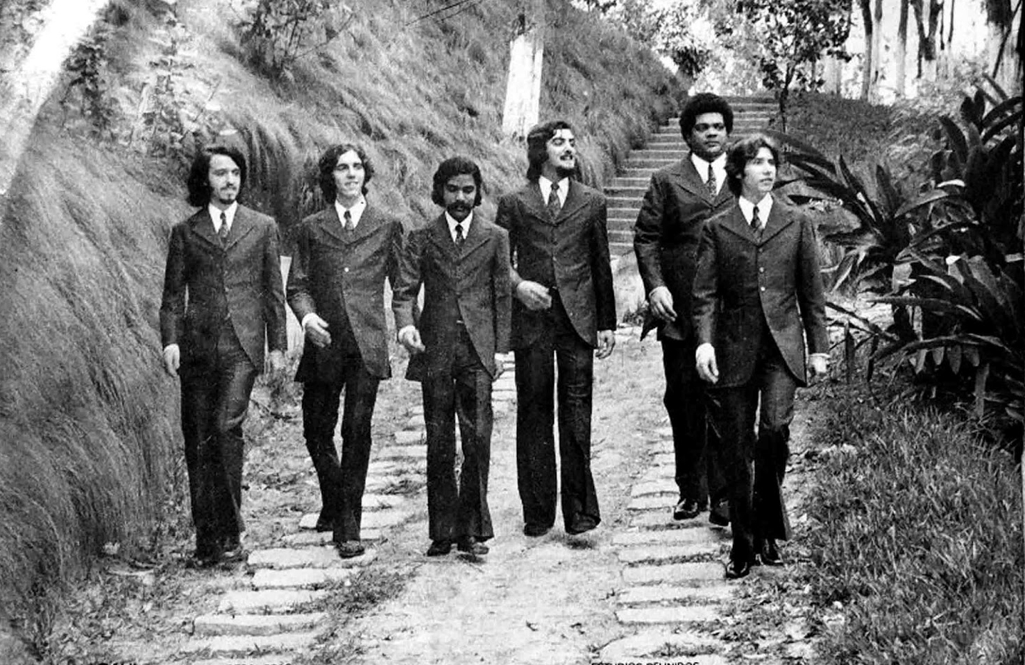 Os Carbonos